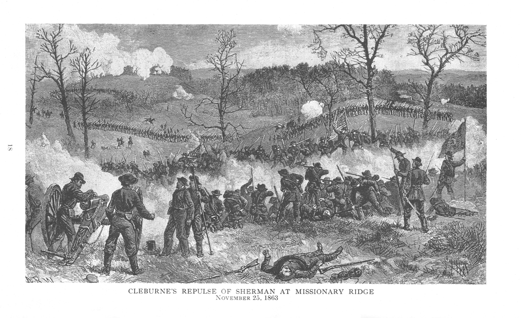 Cleburne's repulse of Sherman's attack at Missionary Ridge, part of the Battles for Chattanooga. According to the explanation given at the book from which this image is taken was published in 1923 with a copyright, but that there is no evidence of copyright renewal with the Stanford Copyright Renewal Database. Book is considered and published by the University of Illinois at Urbana-Champaign as "public domain."